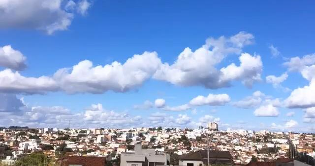 This file consists of an image taken from the Santa Maria neighborhood that shows downtown.